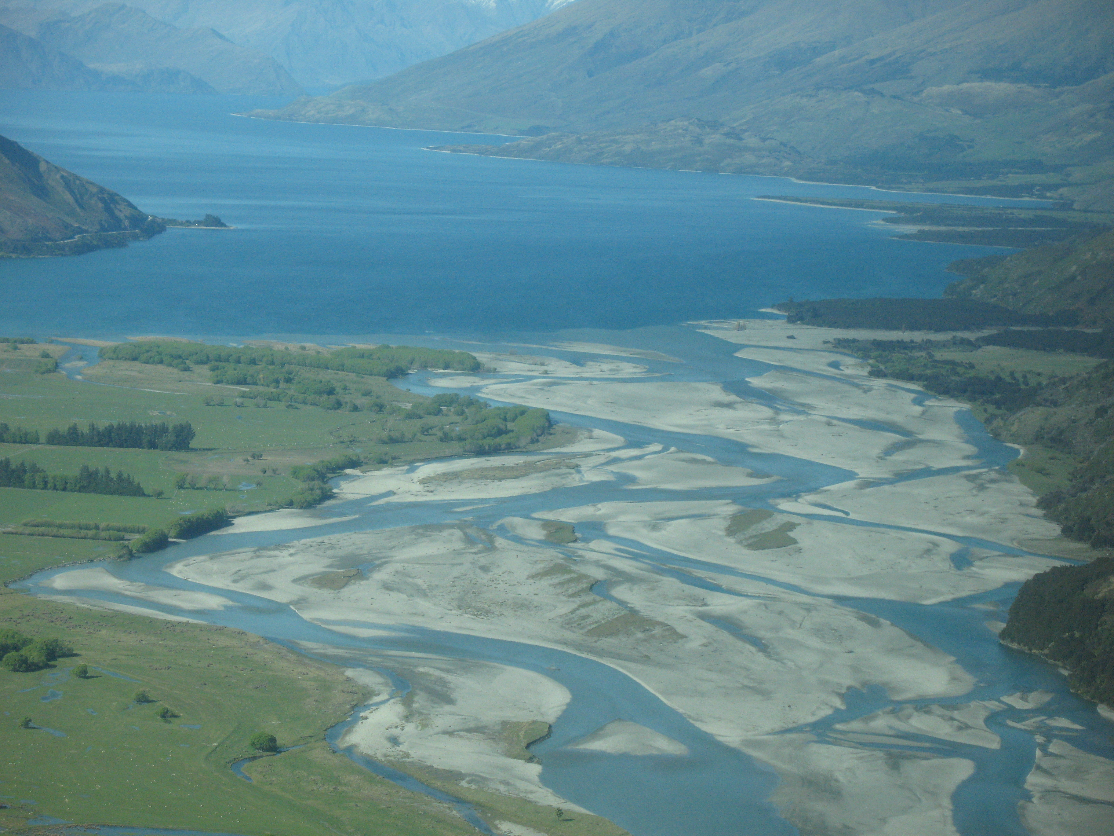 The Makarora River, which rises in the Mount Aspiring National Park, flows into the Northern End of Lake Wanaka, South Island, New Zealand.